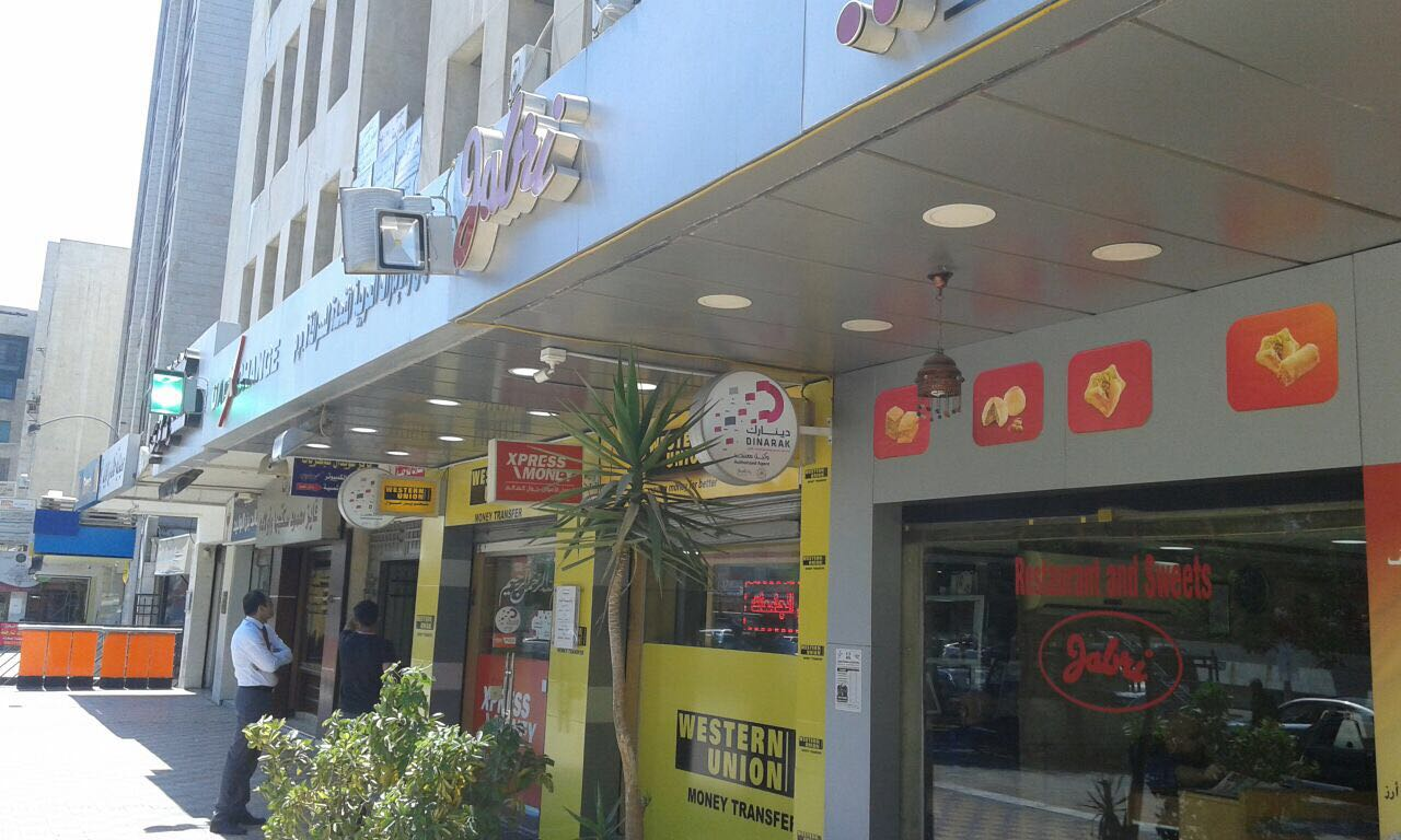 Exchange houses act as banking agents for Dinarak, certified to render all services including KYC